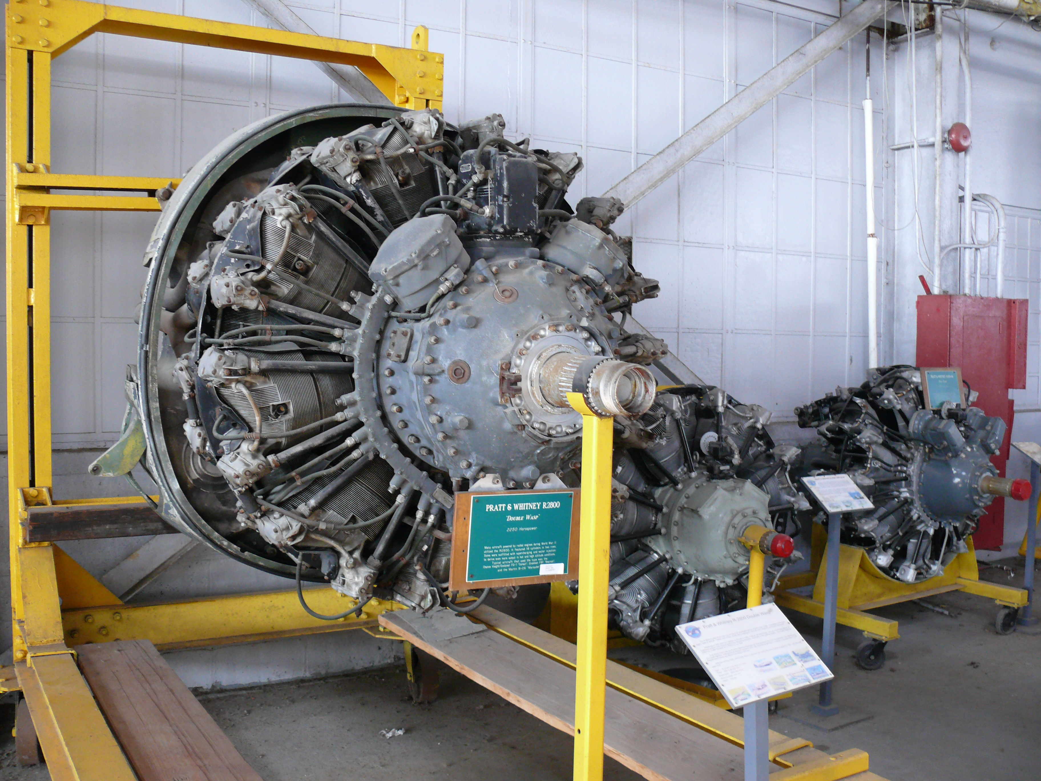 Pratt & Whitney R-2800 Double Wasp in the Historic Aircraft Restoration Project on Floyd Bennett Field (hangar B) in the Gateway National Recreation Area (NY, NJ).